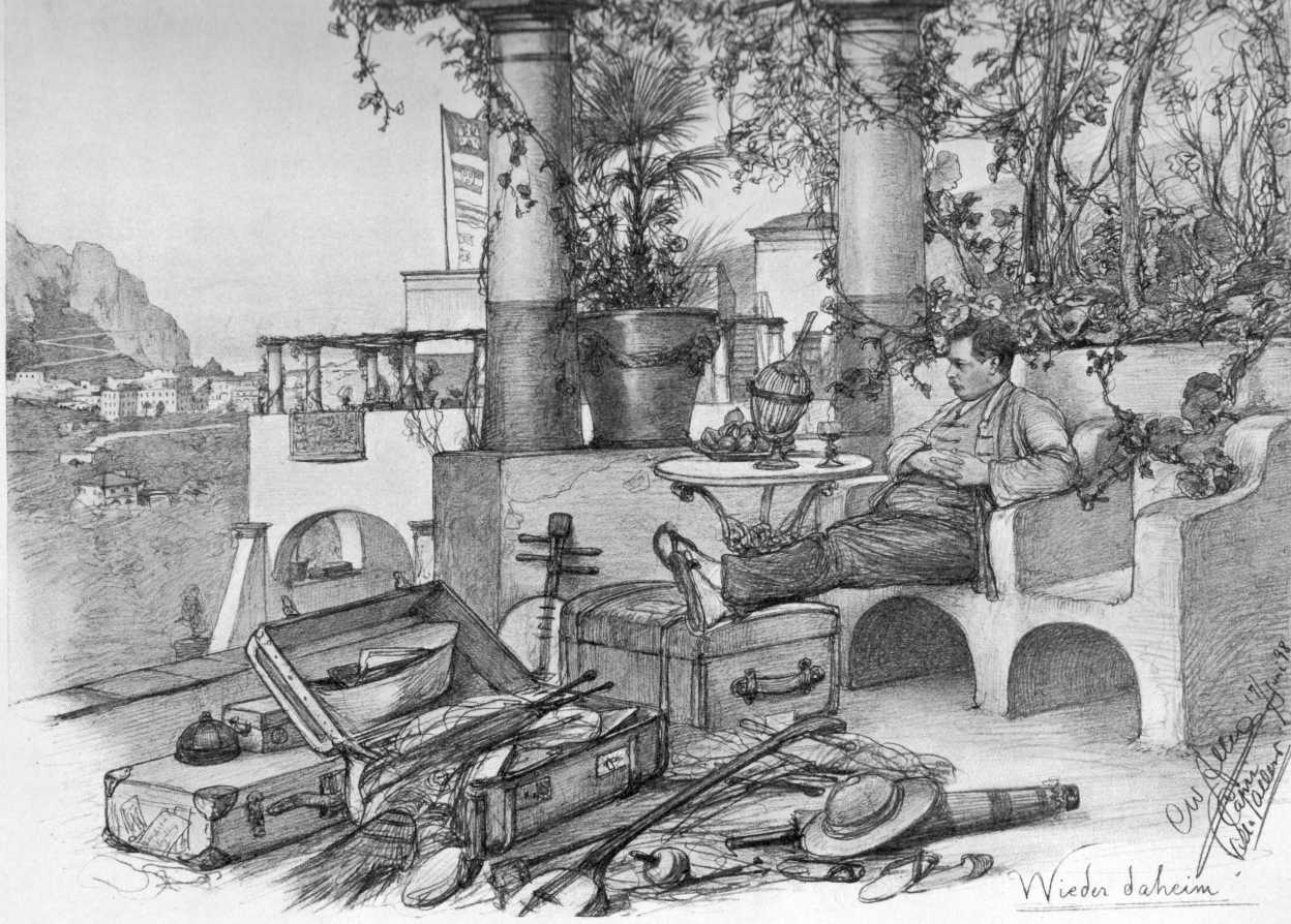 The German painter Christian Wilhelm Allers in his villa at Capri (1898).